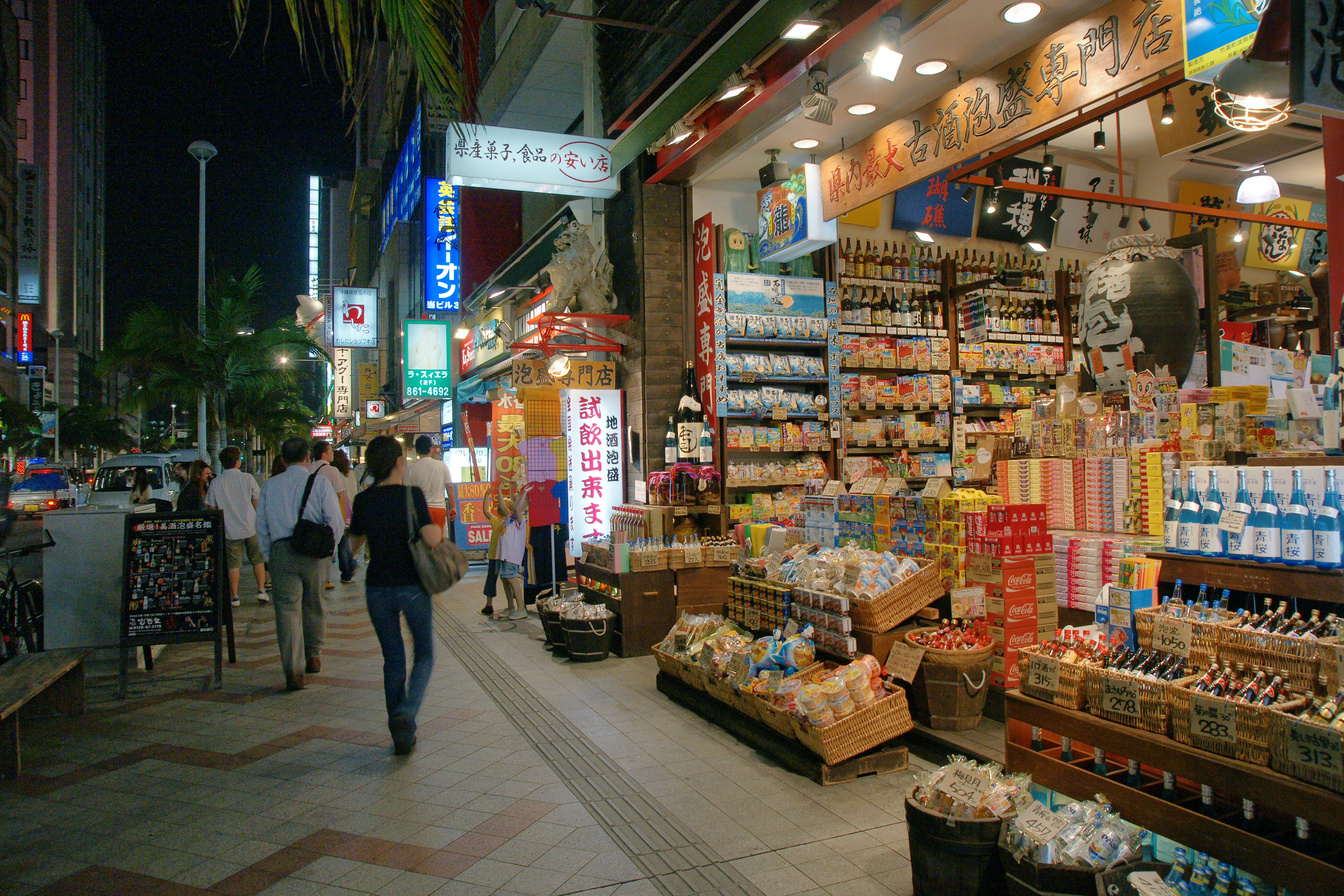 Kokusai-dori (Kokusai street), Naha, Okinawa prefecture, Japan